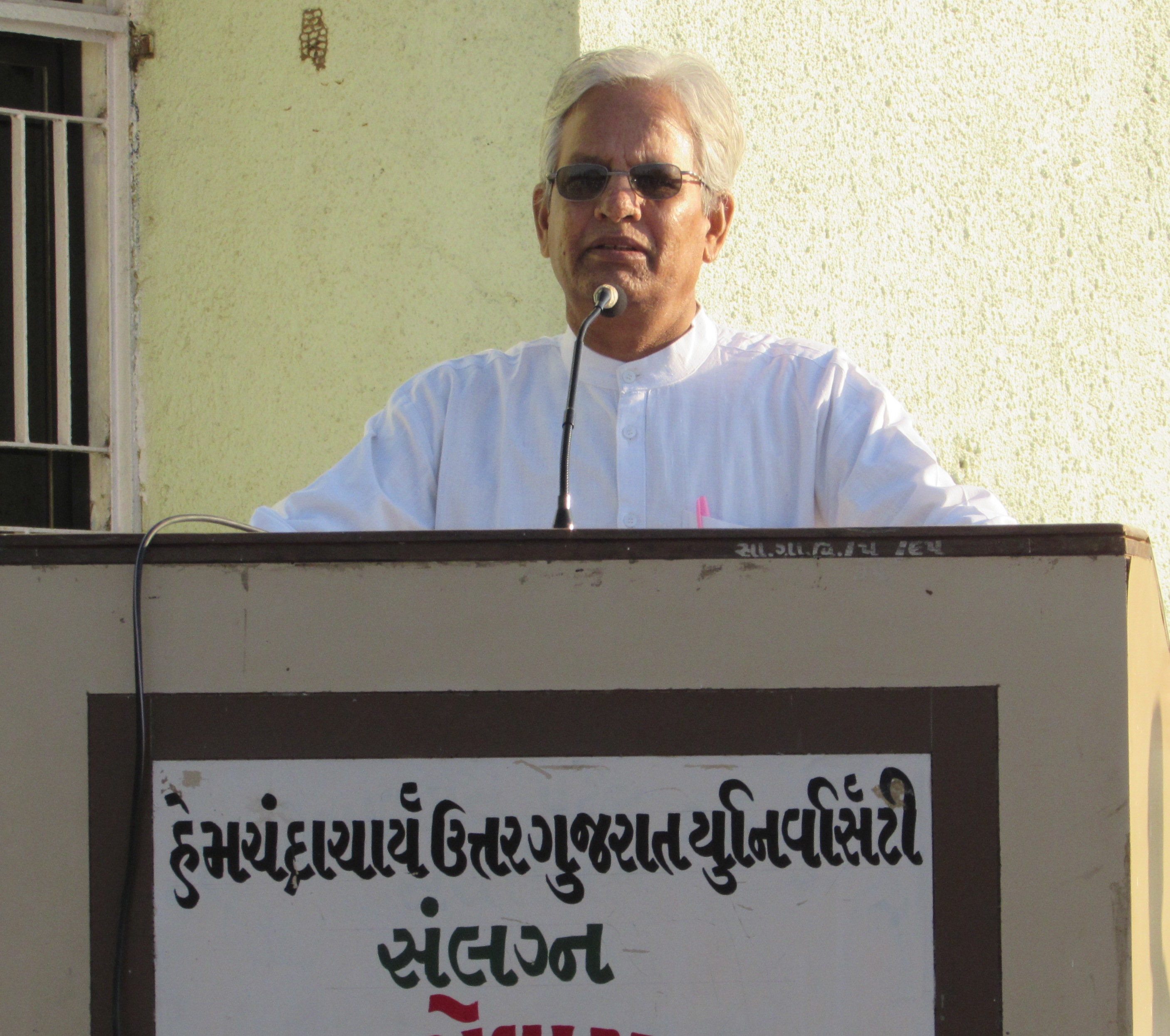 Dr Phoolchand Gupta at Sabargram Mahavidyalay, Prantij on 26 January 2016